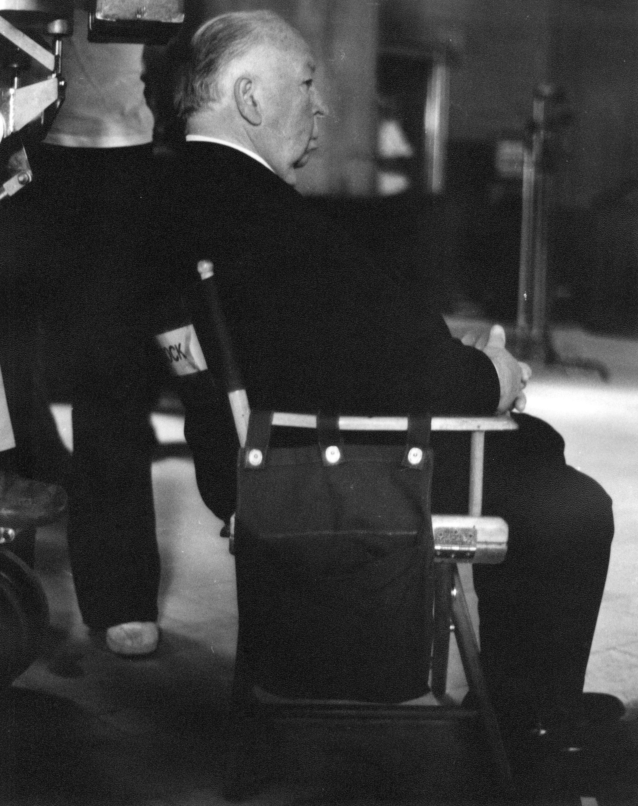 Alfred Hitchcock directing Family Plot inside Grace Cathedral, San Francisco, California.